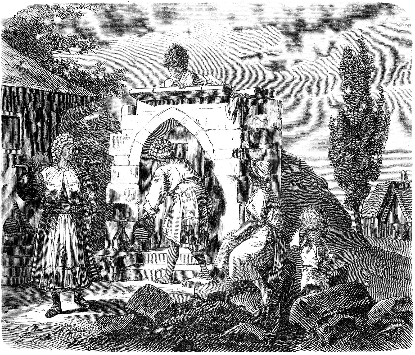 Romanians (Vlachs) in Ždrelo, Central Serbia.